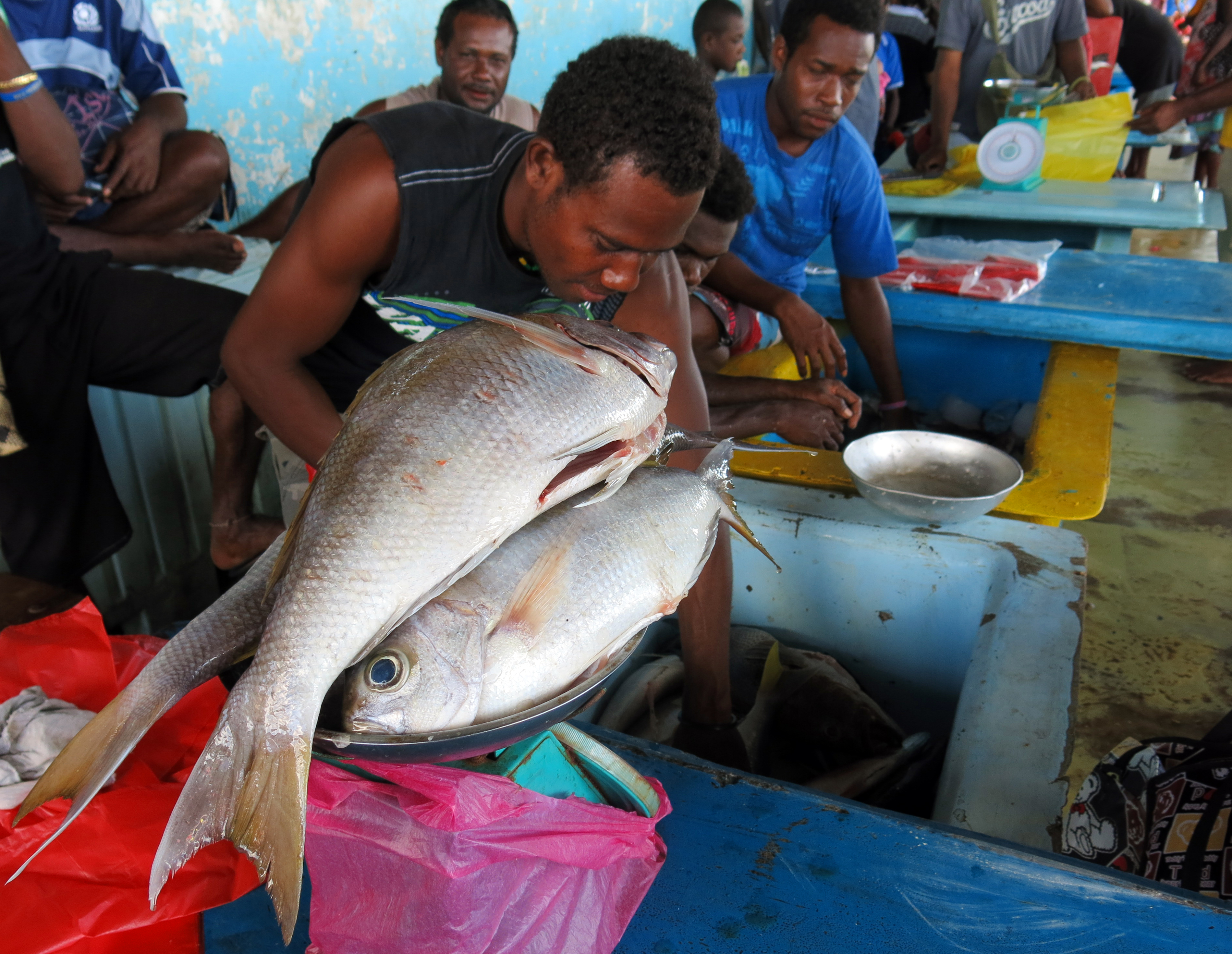 A man selling fish at Honiara’s central market.